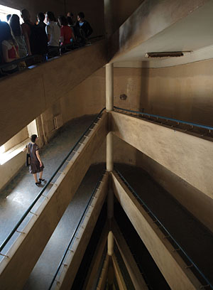 Stairs of the Communal House of the Textile Institute in Moscow